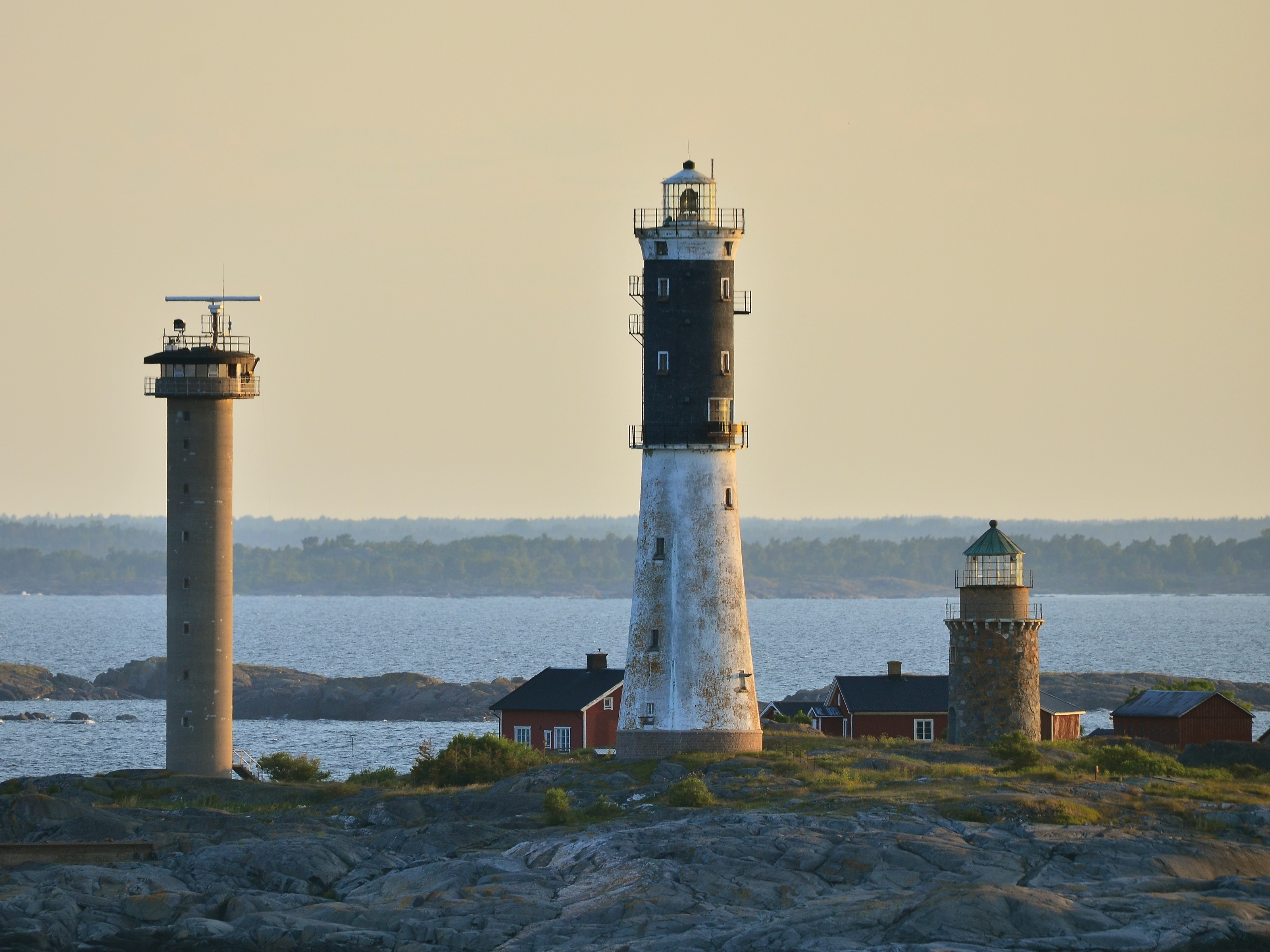 The lighthouse station at Understen in South Kvarken, Baltic Sea. View from northeast.